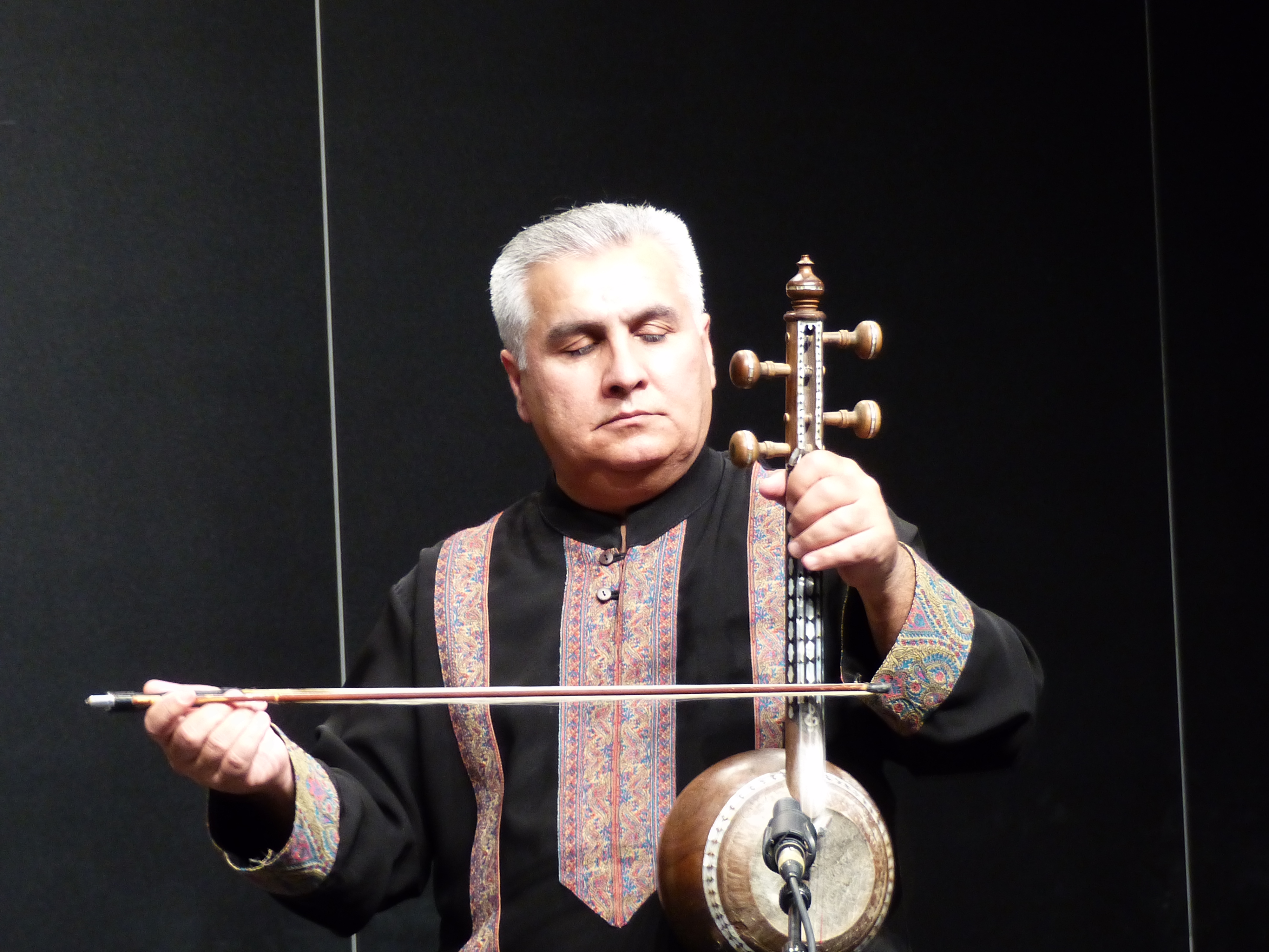 Malik Mansurov Mugam Quartet (Azerbaijan). Taken on the 1st of April, 2017. Várkert Bazár, Budapest, Hungary, Central Europe. Sourceː